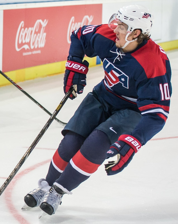 Danny DeKeyser, American ice hockey defenceman